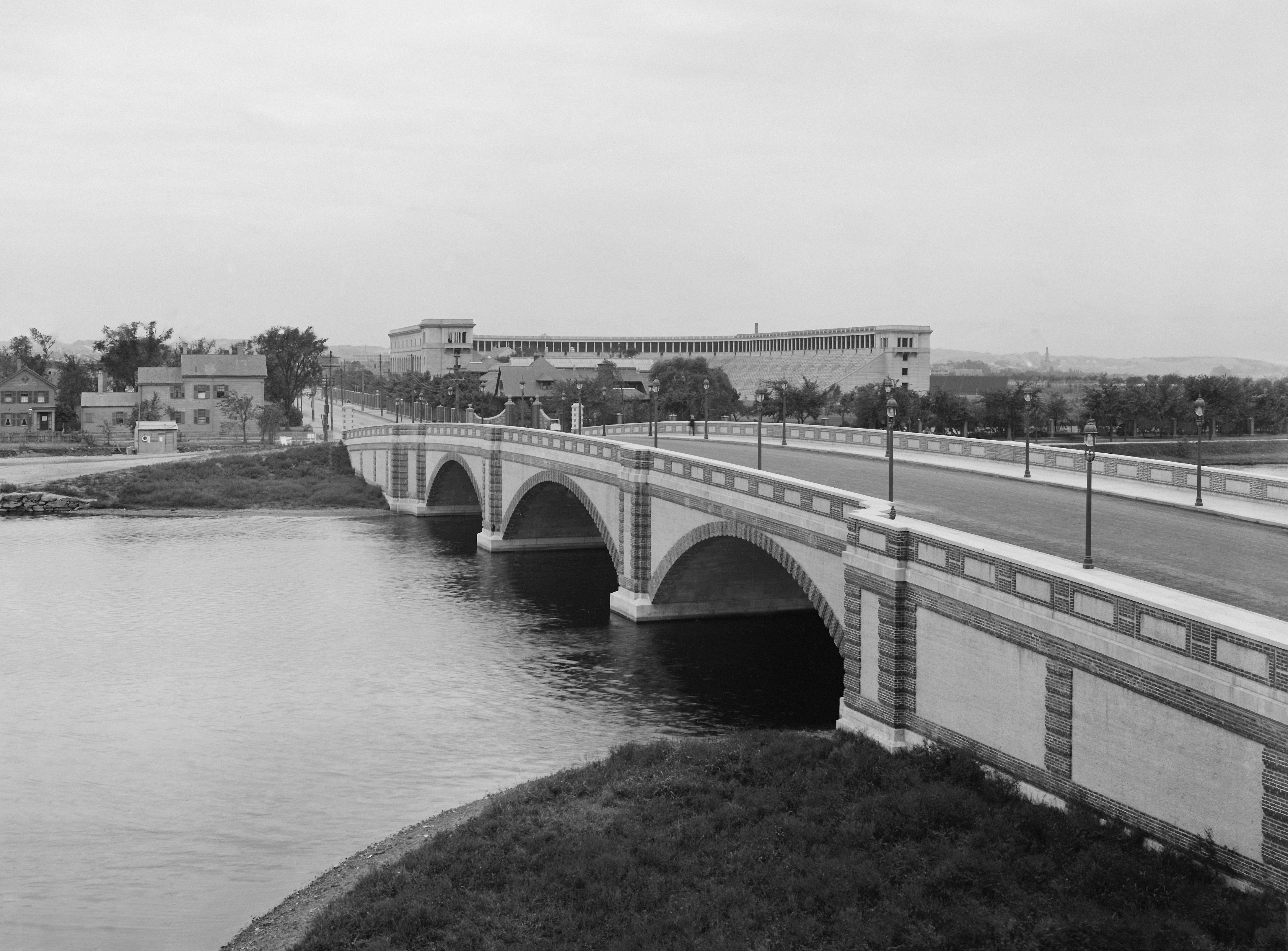 Anderson Memorial Bridge (commonly but incorrectly called Larz Anderson Bridge) and [Harvard University] stadium, Cambridge, Mass.